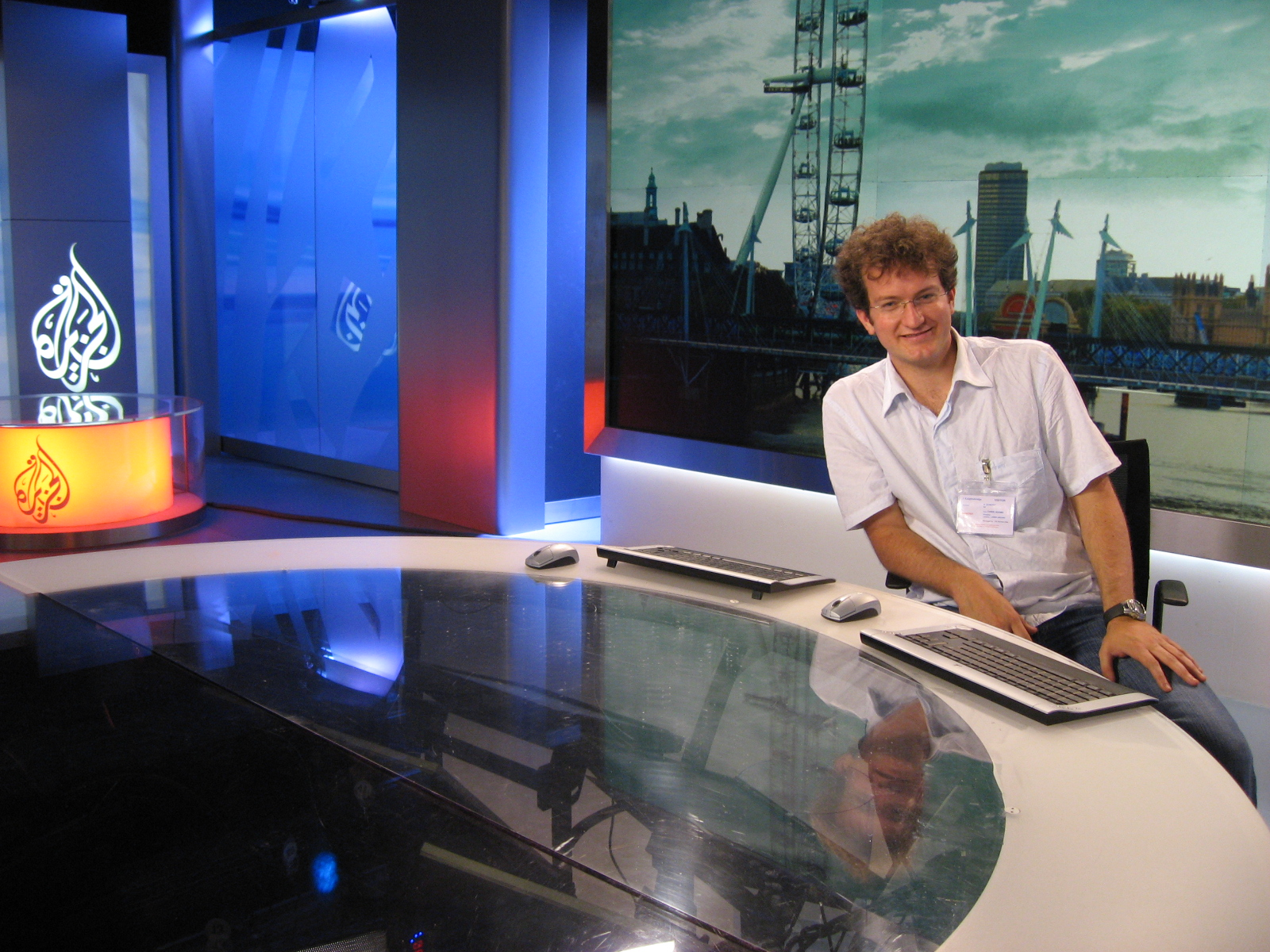 News anchor's seat at Al Jazeera studios in London.